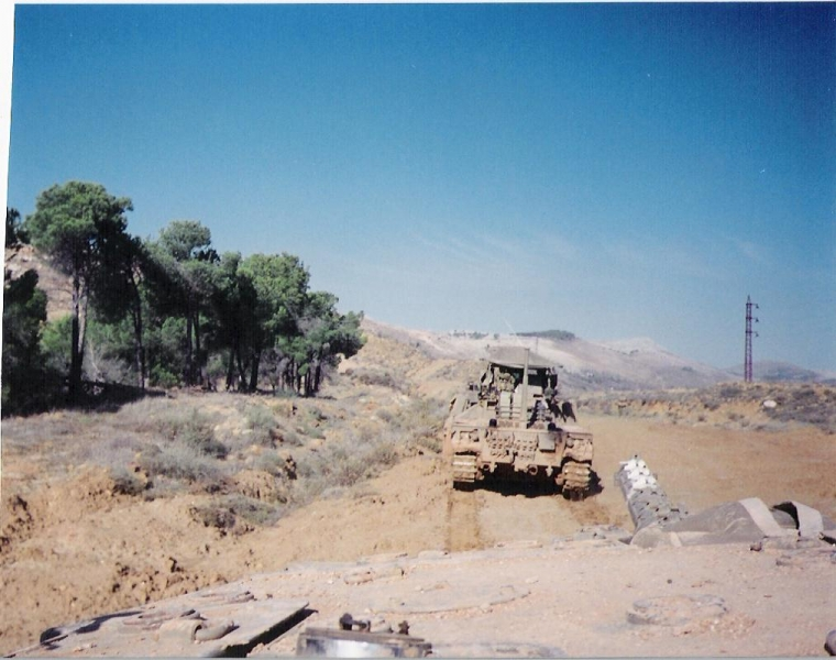 פתיחת ציר שיצאה מעיישיה לריחן 1995 (תמונה צולמה על ידי עמיחי טובן )